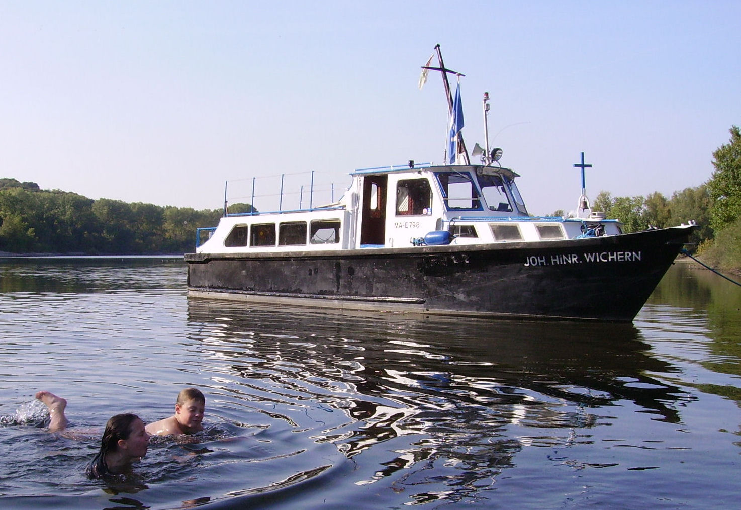 boat in Mannheim, Germany